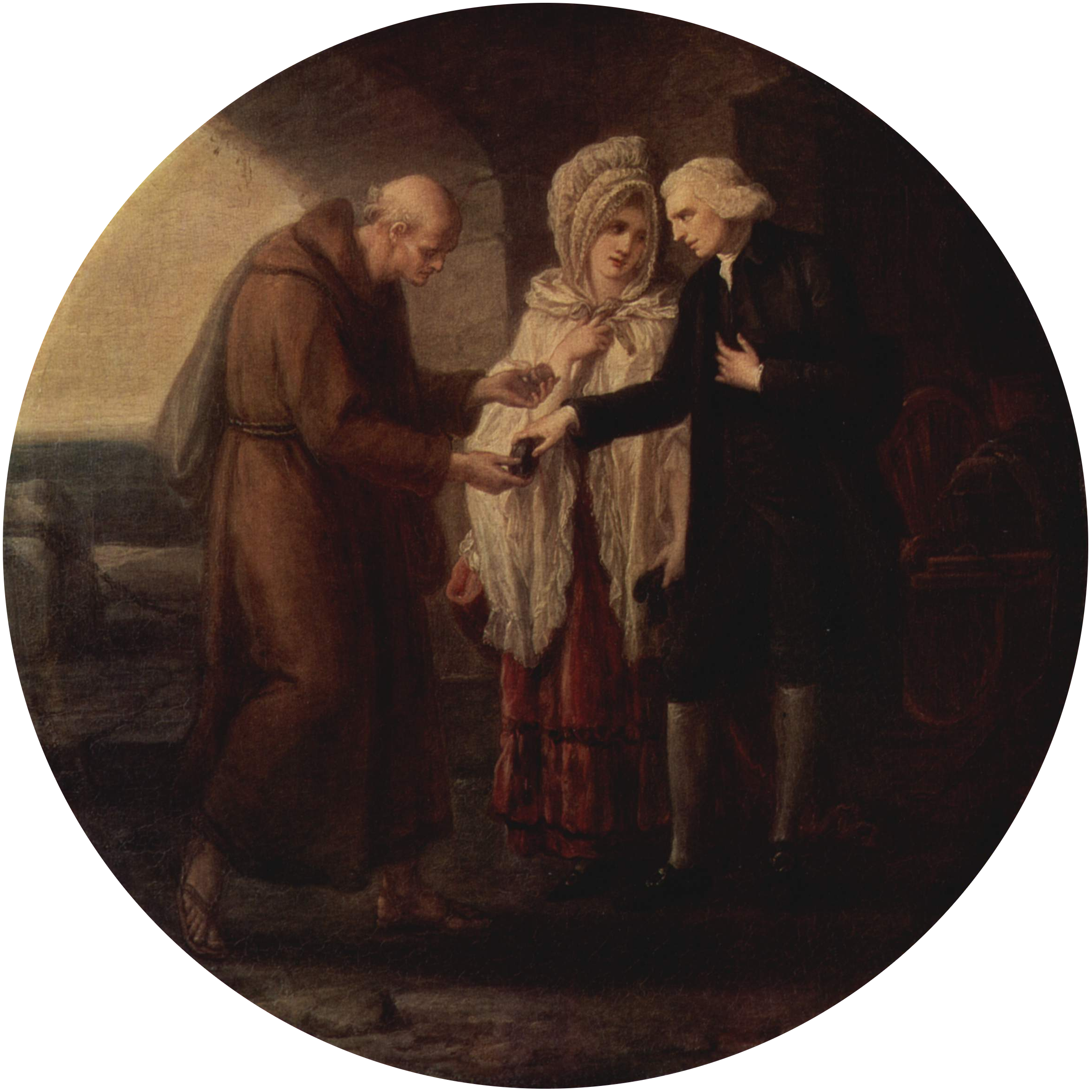 Pair to the Painting "Insane Maria"